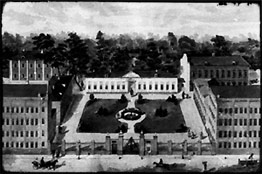 Шелкоткацкая фабрика Жиро, конец XIX - начало XX веков.